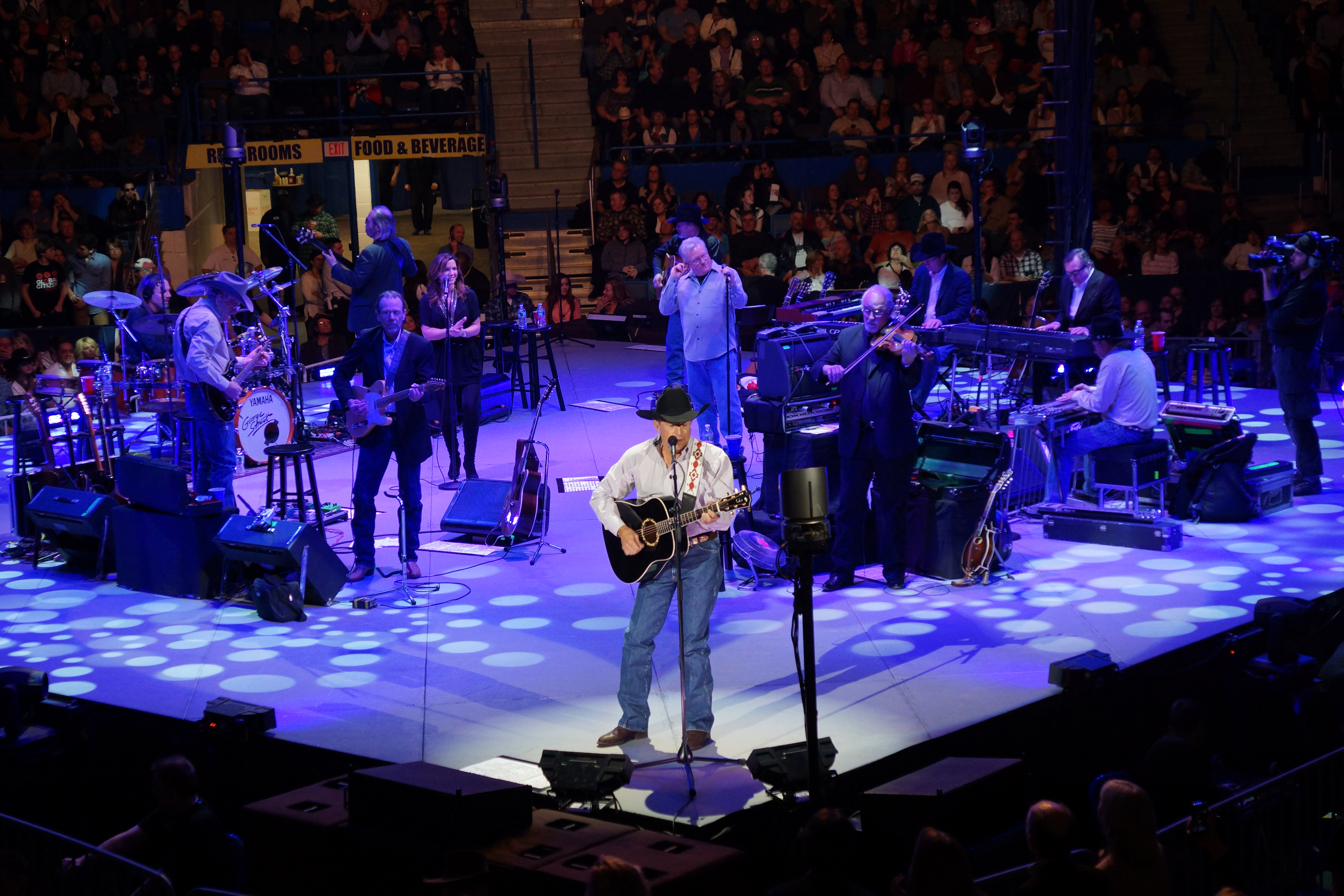 George Strait with the Ace in the Hole Band on The Cowboy Rides Away Tour at the XL Center, Hartford, Connecticut, February 23, 2013, Clockwise: George Strait (vocals and acoustic guitar), Benny McArthur (lead guitar and fiddle), Rick McRae (lead guitar), Mike Kennedy (drums), Terry Hale (bass), Marty Slayton (backing vocals), Joe Manuel (acoustic guitar), Thom Flora (backing vocals), John Michael Whitby (keyboards), Ron Huckaby (piano), Mike Daily (steel guitar), and Gene Elders (fiddle and mandolin)